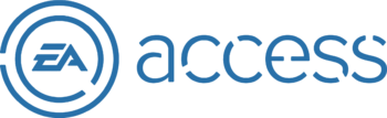 This file represents a logo.